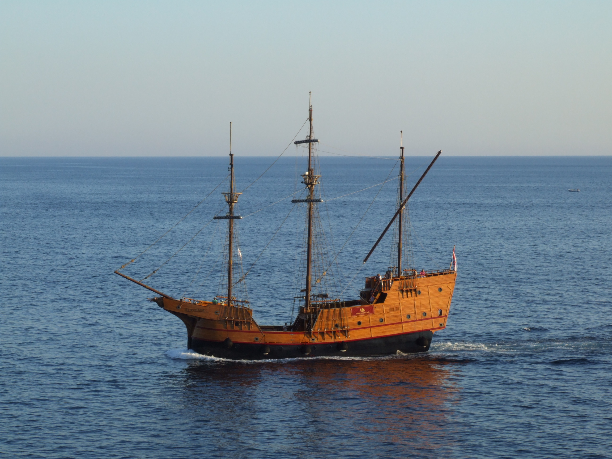 Karaka, a replica of trading ship in Dubrovnik, Croatia